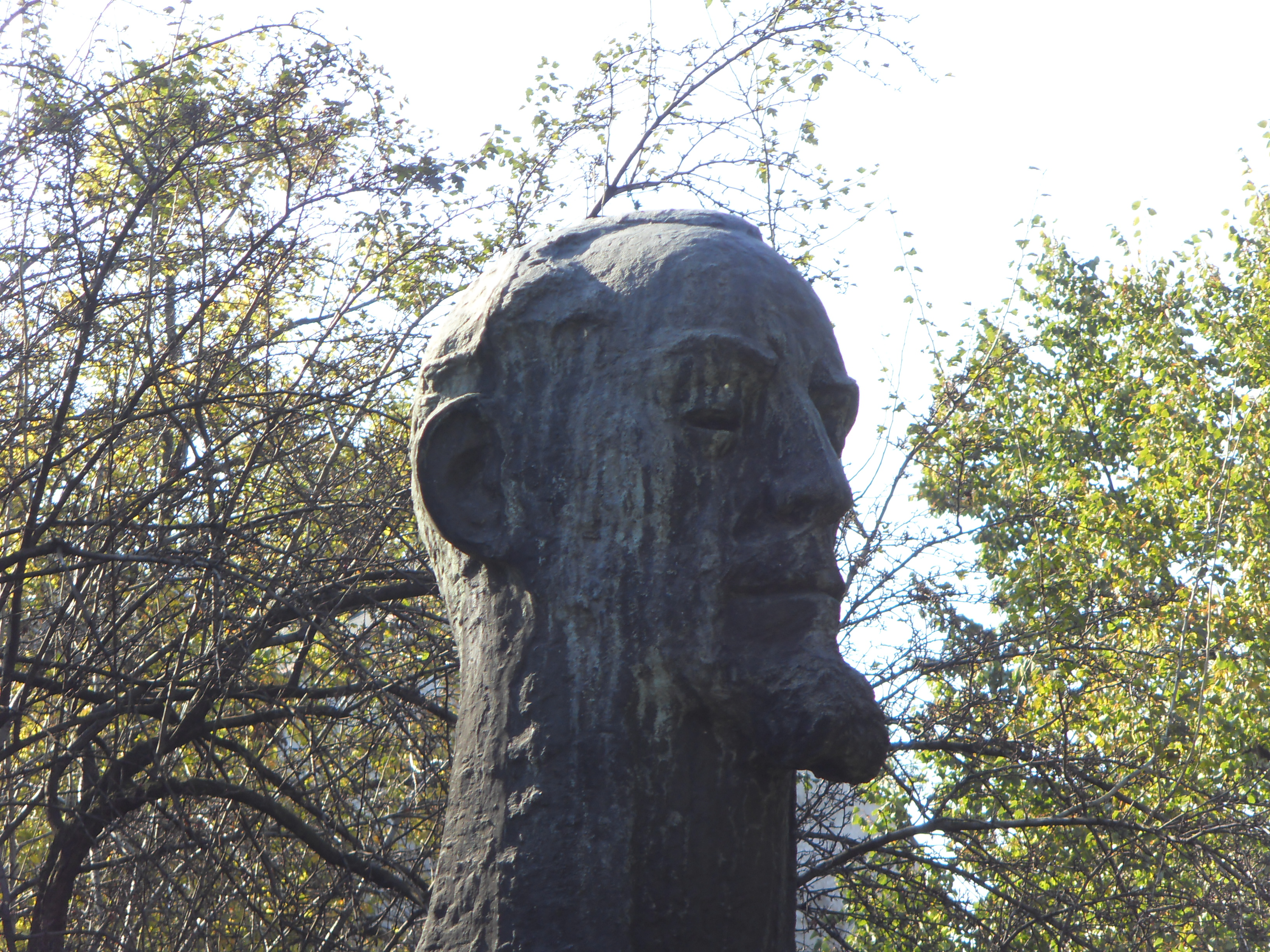 Statue of Maksymilian Rutkowski